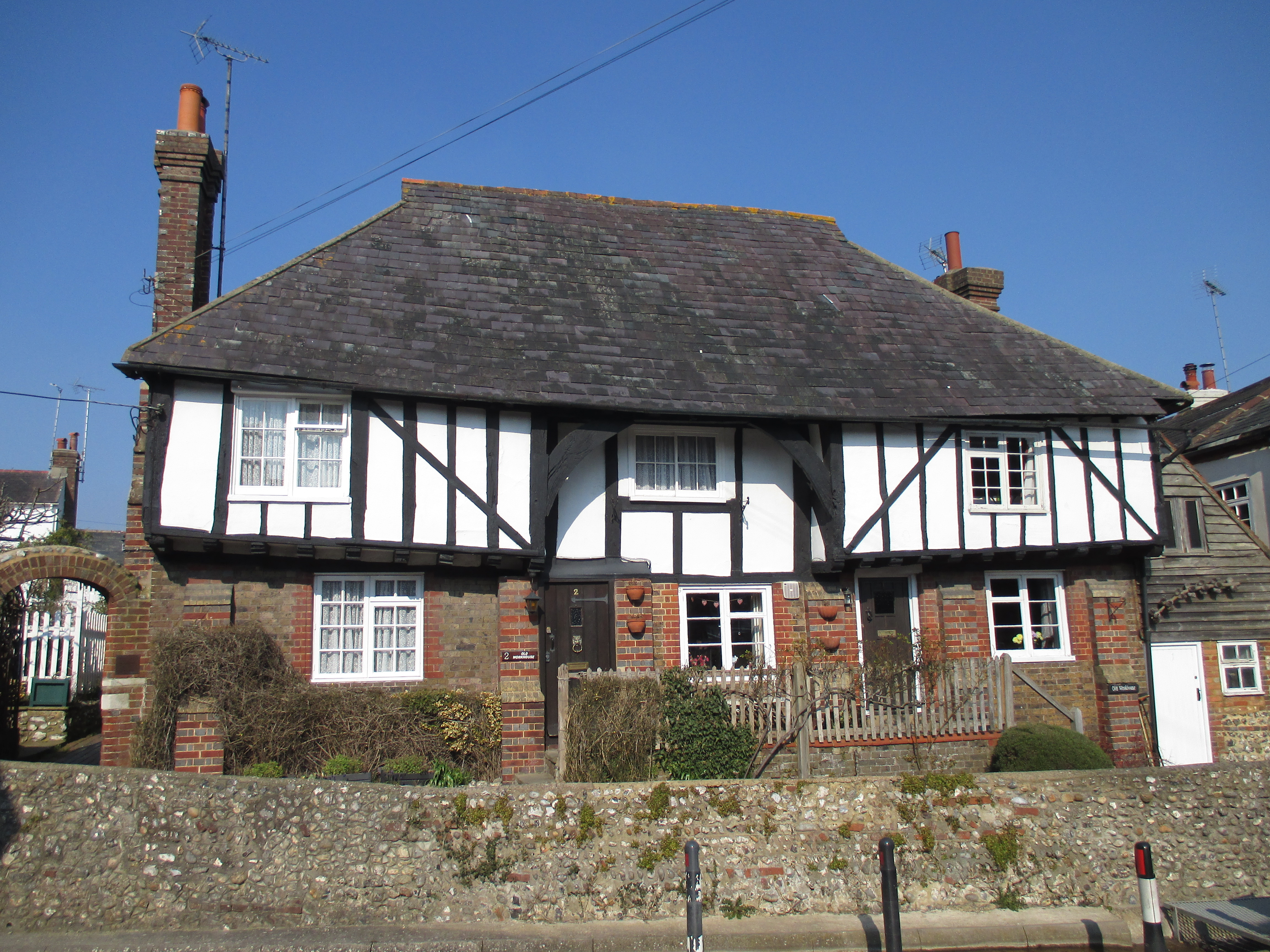 The Old Workhouse, Mouse Lane, Steyning, West Sussex seen from the south-west.